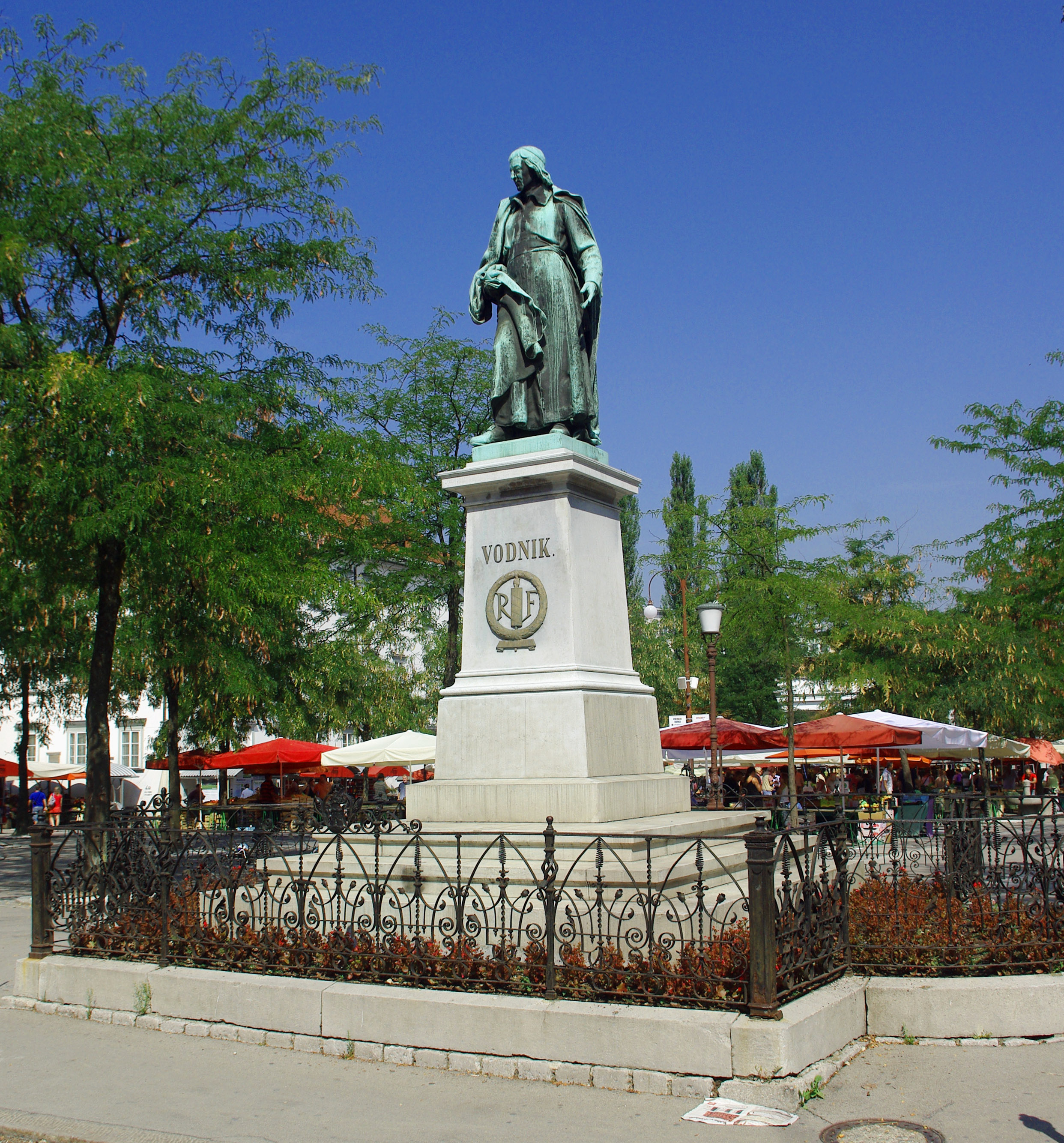 Statue of Slovene priest, schoolmaster and poet Valentin Vodnik, placed at Vodnikov trg, Ljubljana, Slovenia.